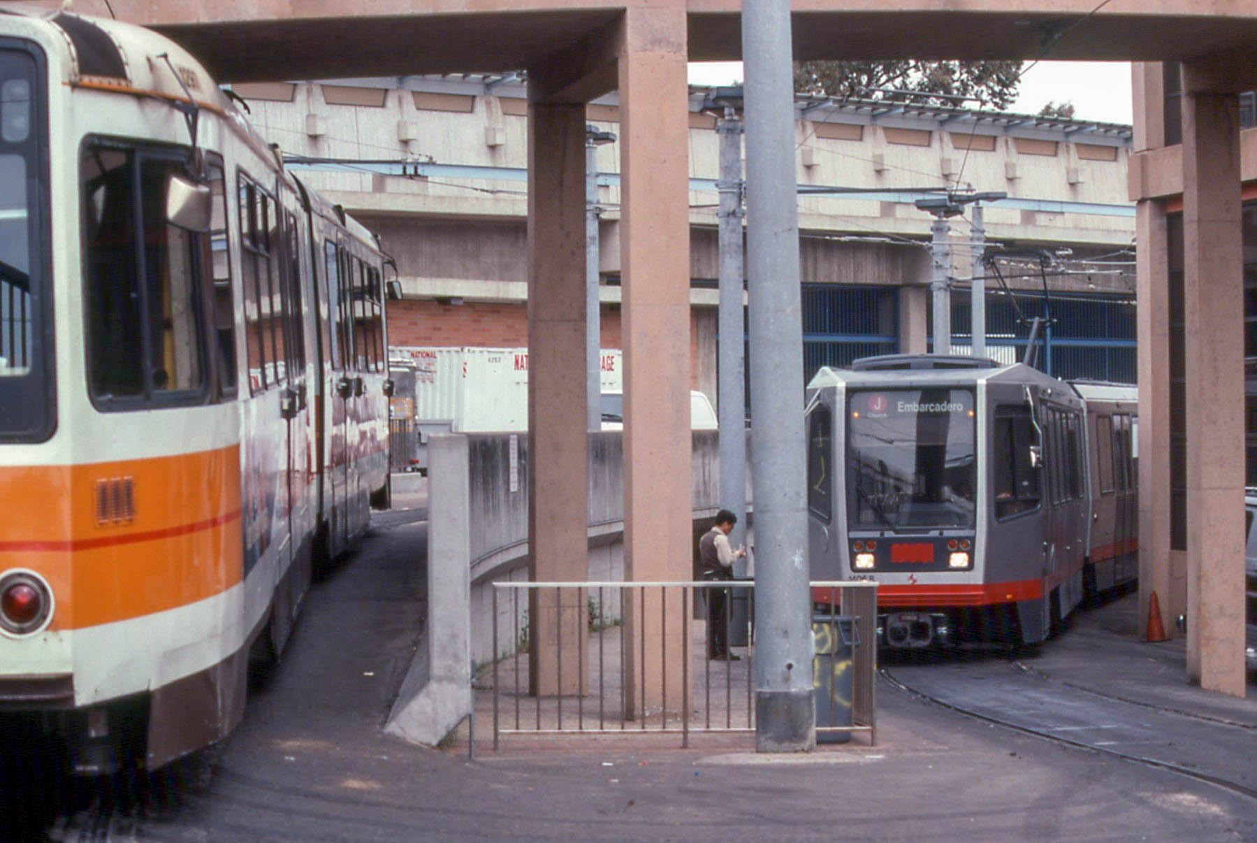 An old Boeing LRV (left) and a new Breda LRV laying over at Balboa Park in May 1997